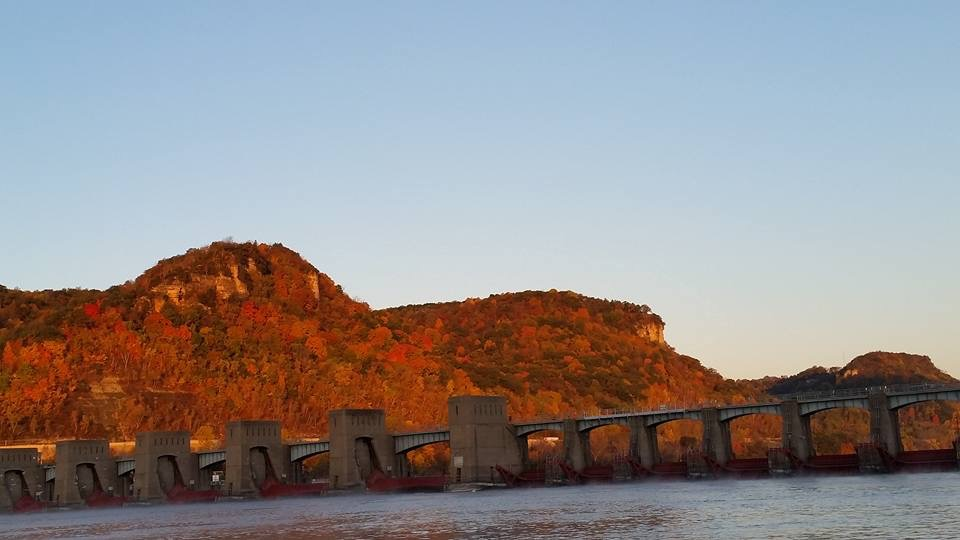 lock and damn 7